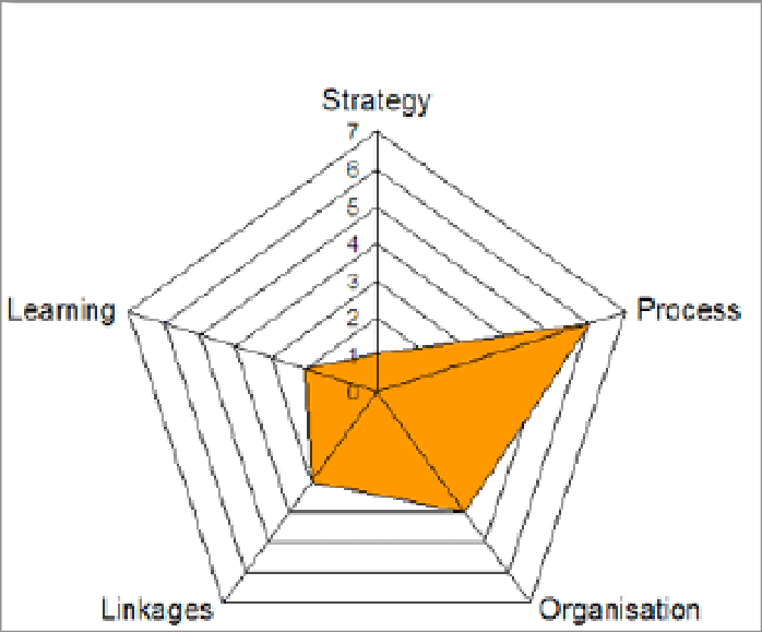 Diamond Model Innovation